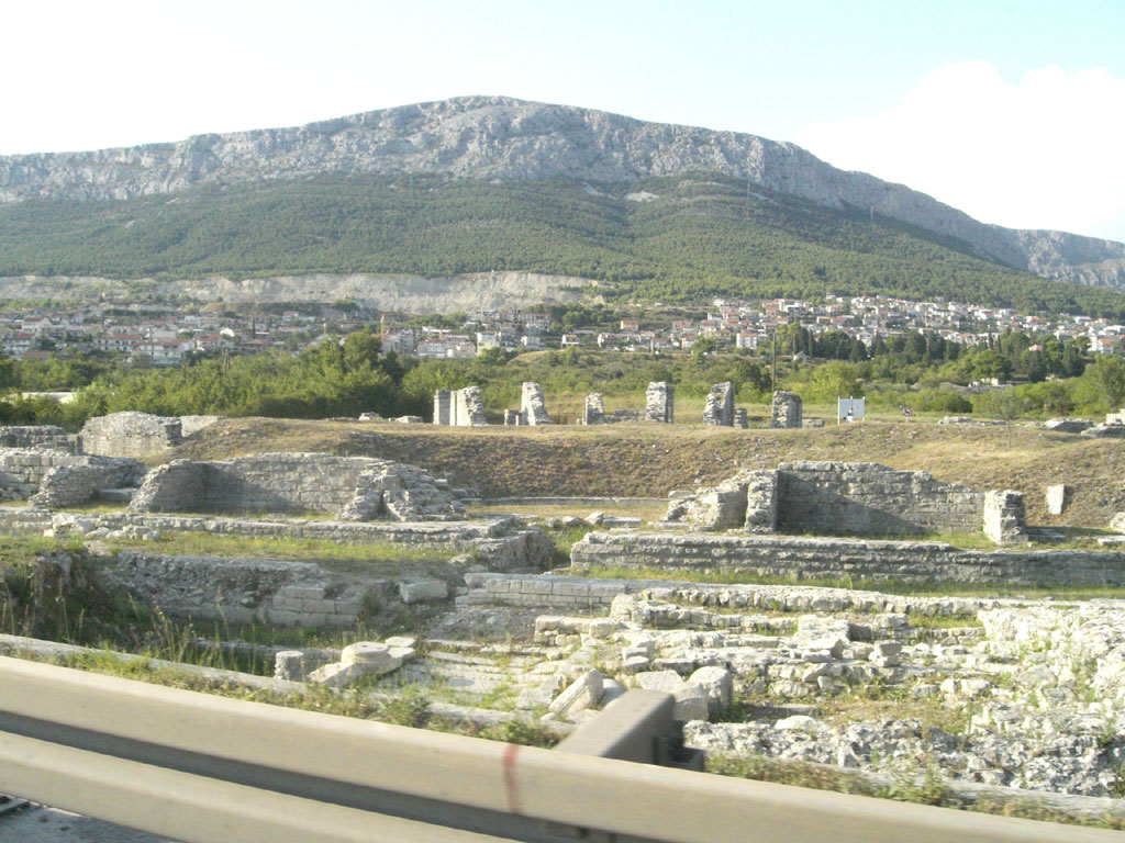 Ancient Roman theater in Salona (now Solin), Croatia